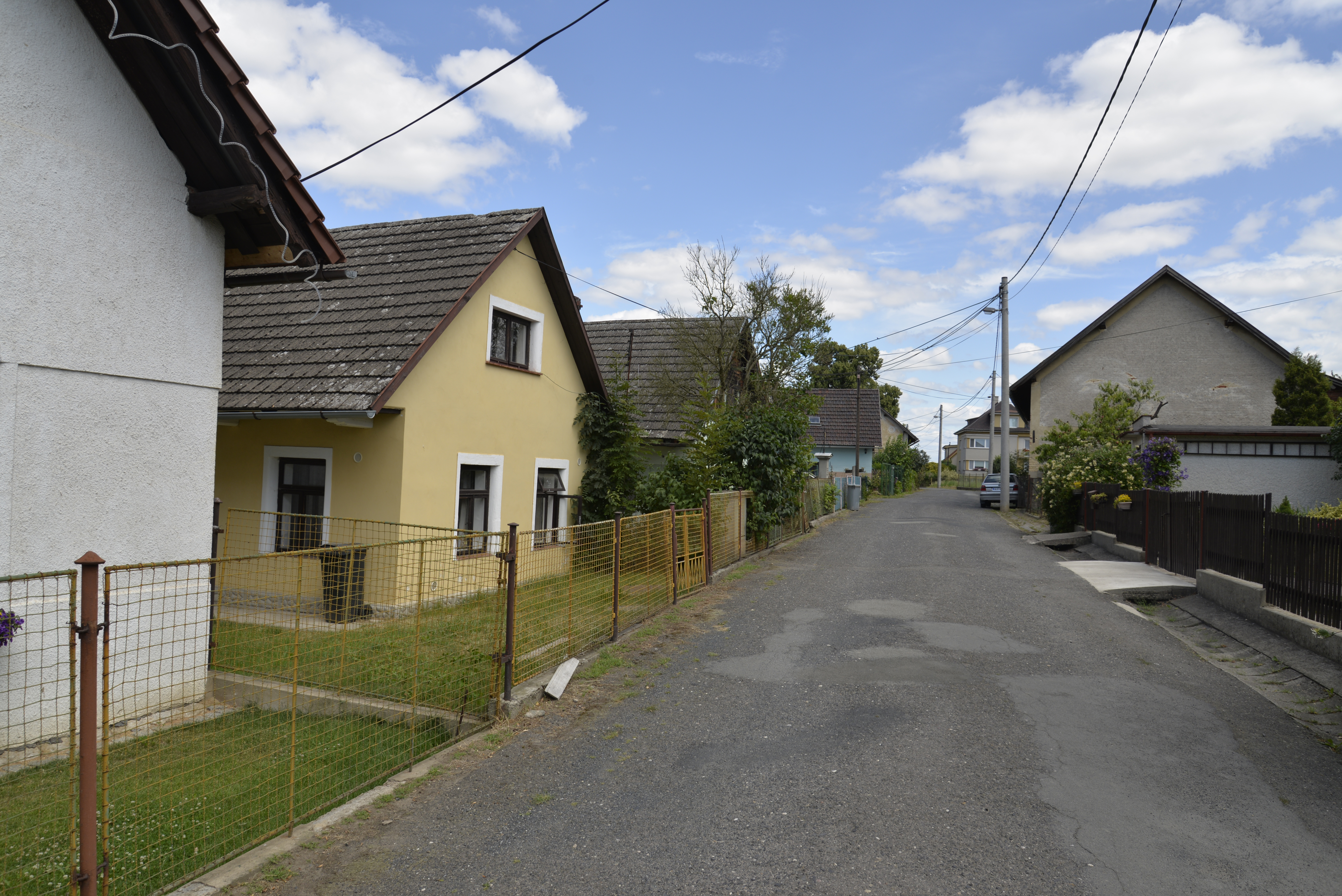 Village Močítka, part of the village Svijanský Újezd